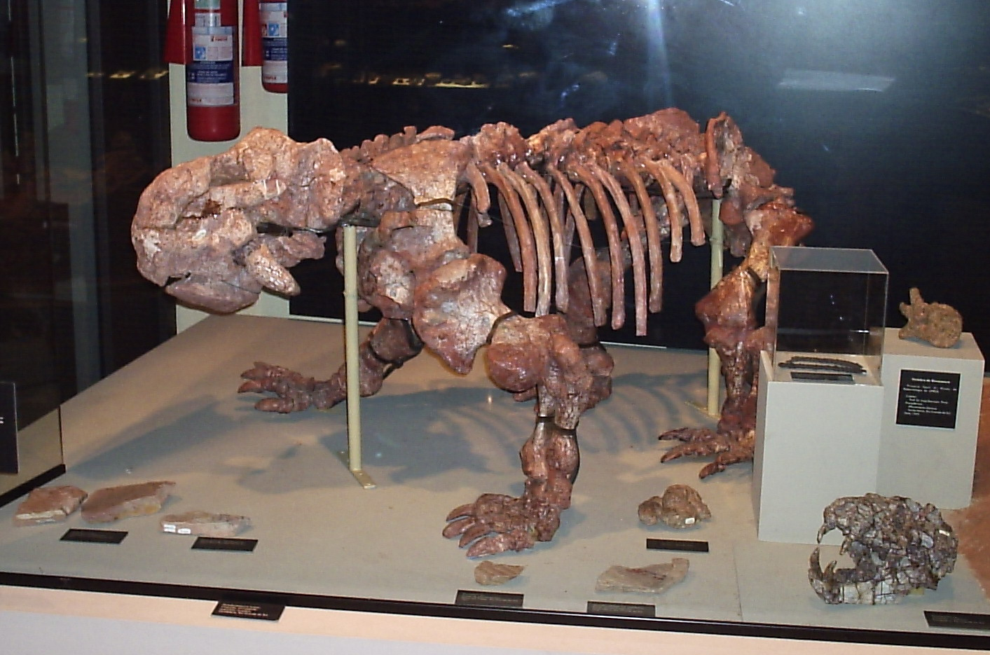 Dinodontosaurus skeleton, with Chiniquodon skull at the lower right, UFRGS.